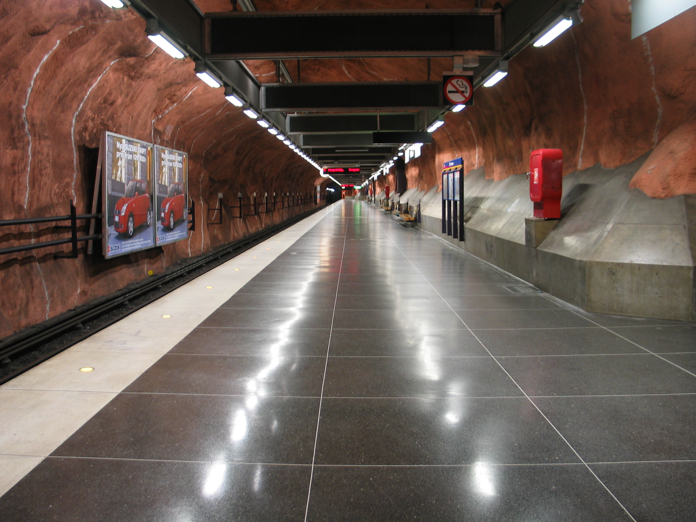 Rådhuset, a metro station in Stockholm, Sweden.